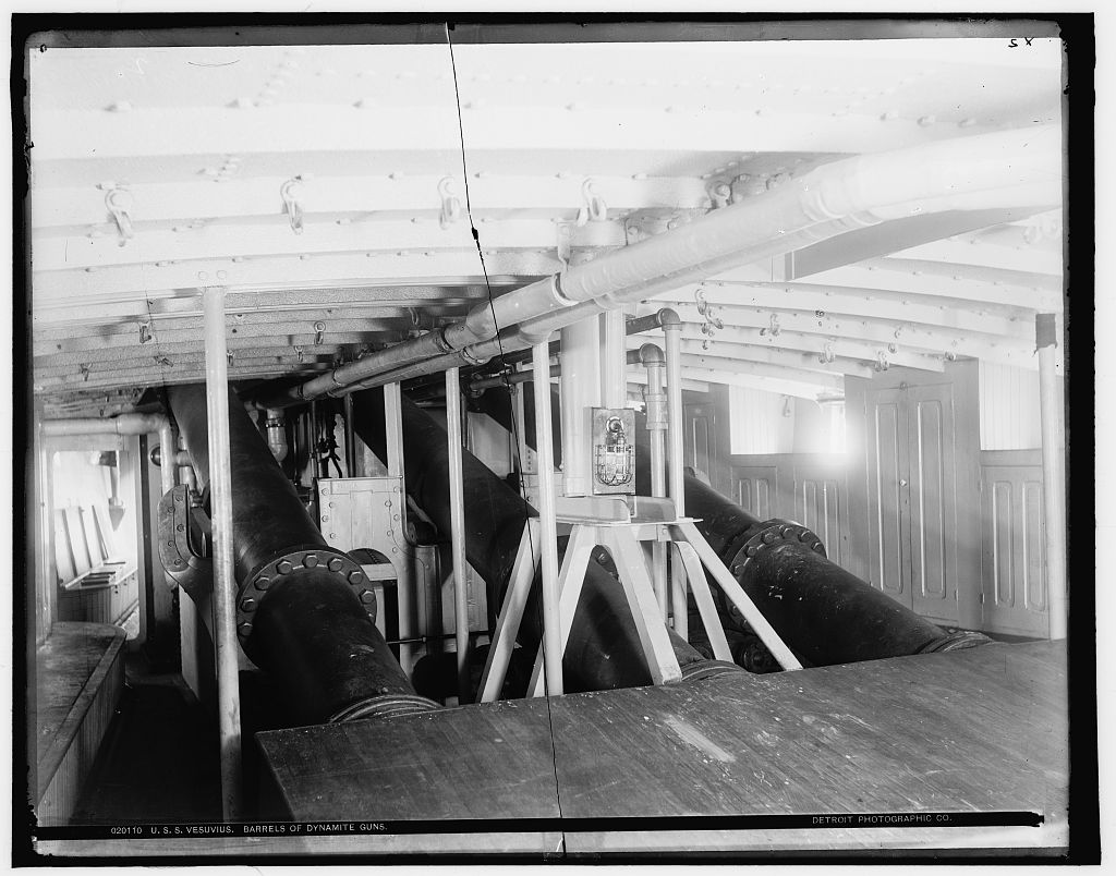 Photograph of U.S.S. Vesuvius, barrels of dynamite guns. 1 negative : glass ; 8 x 10 in.